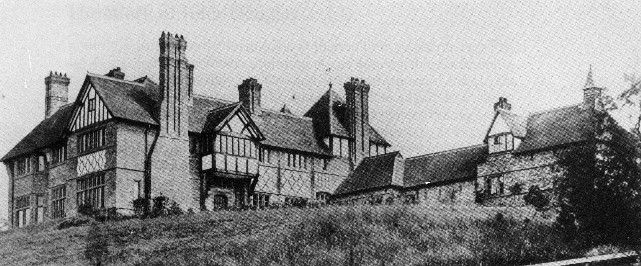 Photograph of The Gelli, Tallarn Green, from the northwest